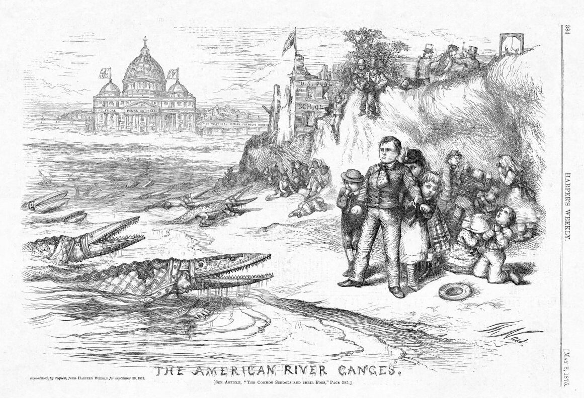 Thomas Nast anti-Catholic cartoon from Harper's Weekly magazine (1875)